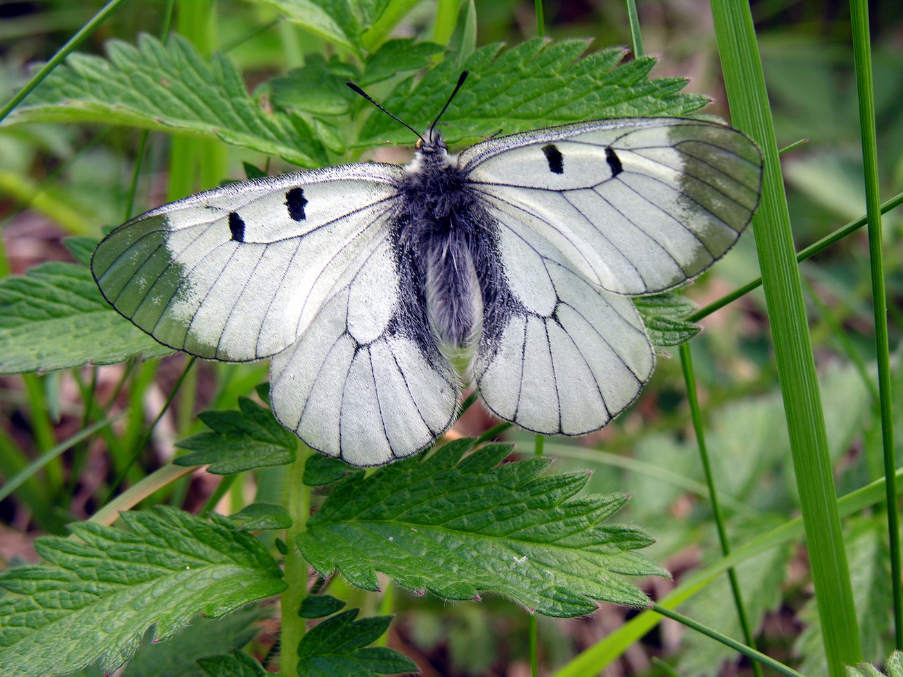 Parnassius mnemosyne Photo by: Algirdas, 27 May 2006, Lithuania